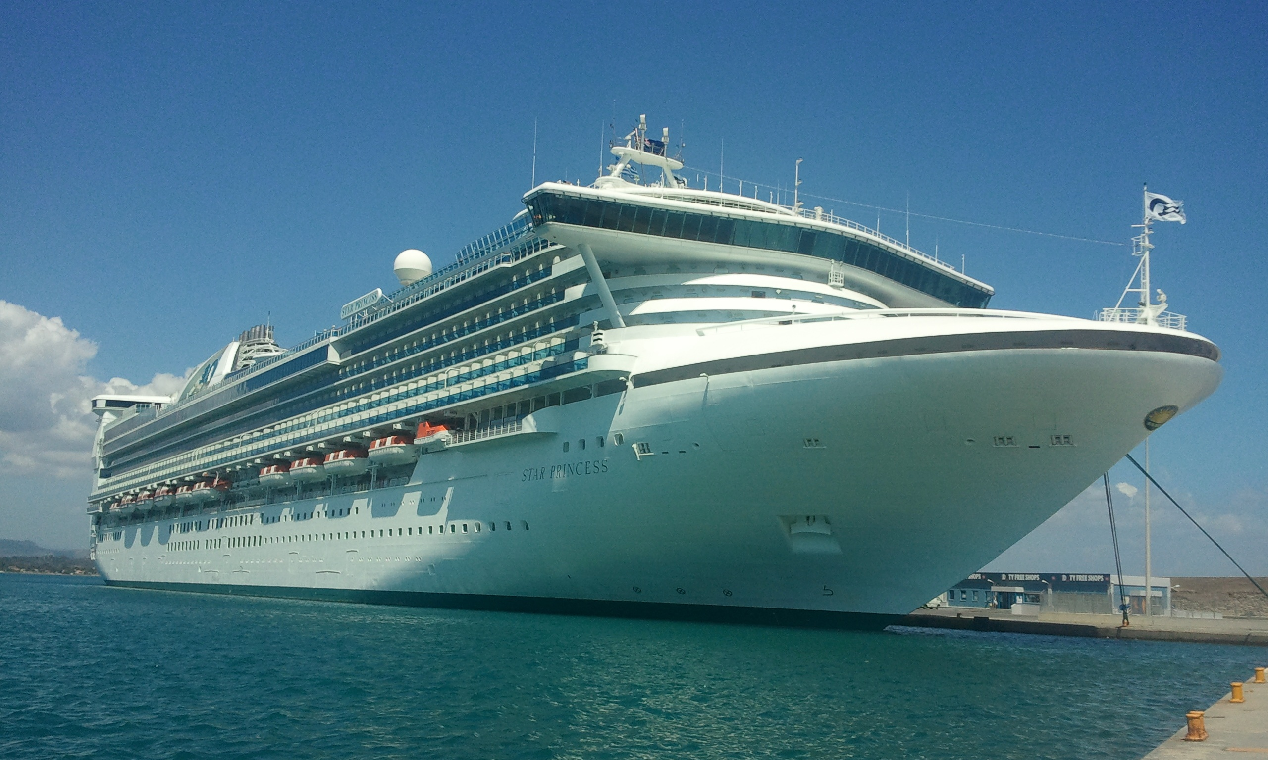 Cruise Ship Star Princess